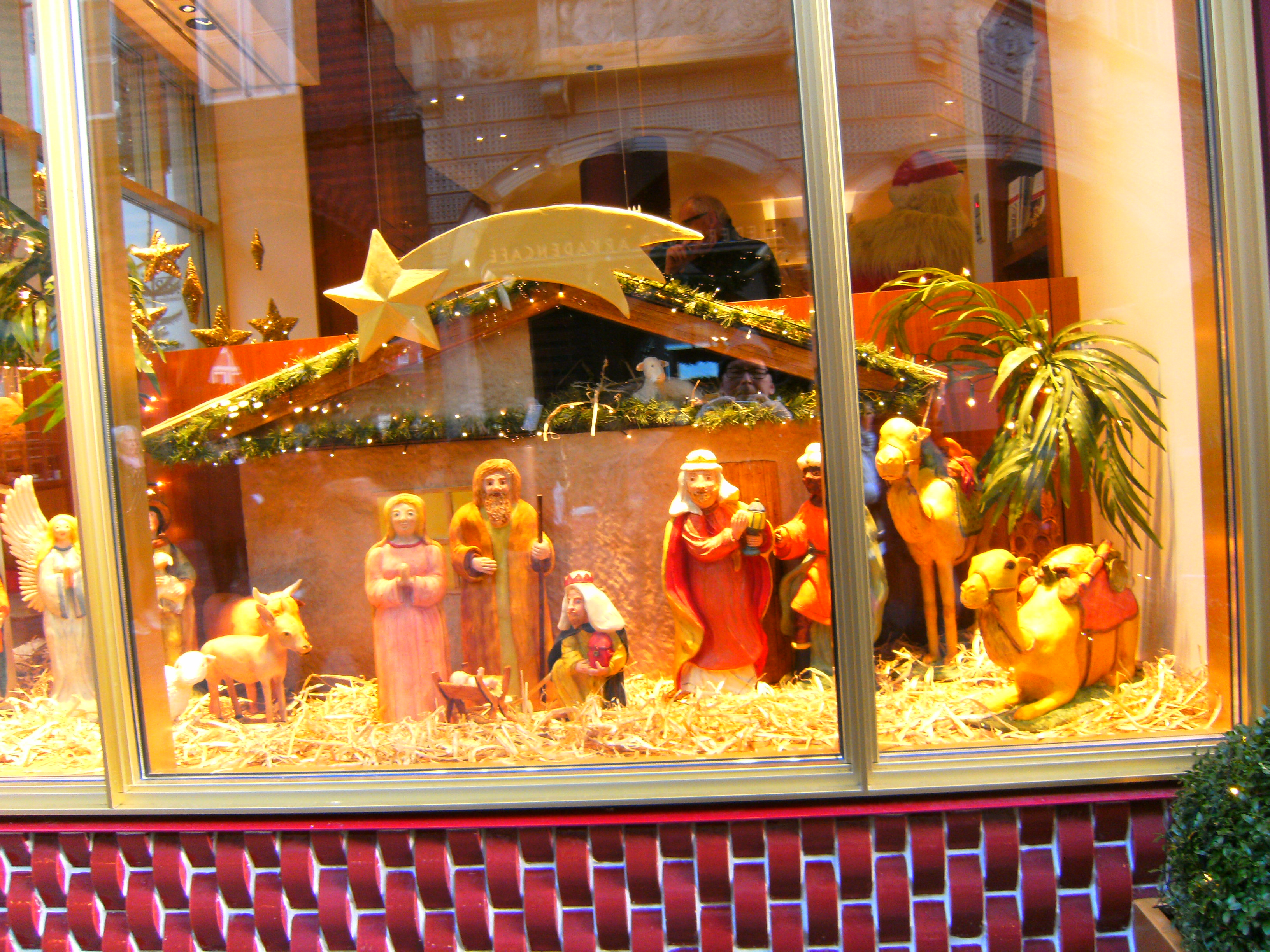 Cafe Niederegger in der Breiten Straße 89 in Lübeck, Germany: Entrance to the Cafe in the pre Advent season. In detail: shop window.